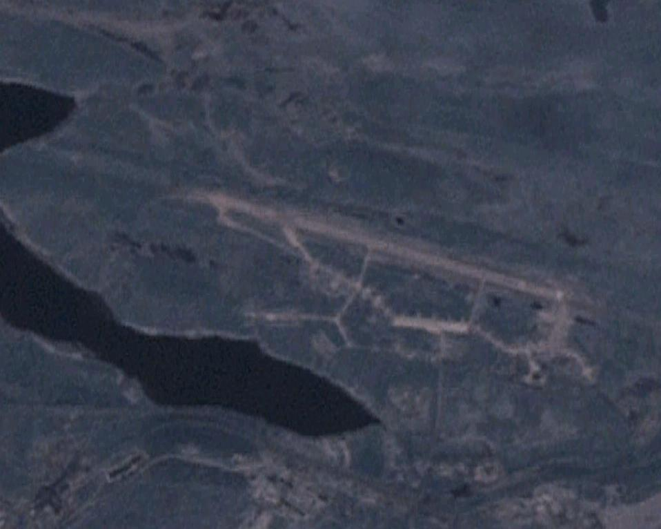 Afrikanda airfield, former Soviet Union. Image from NASA World Wind.